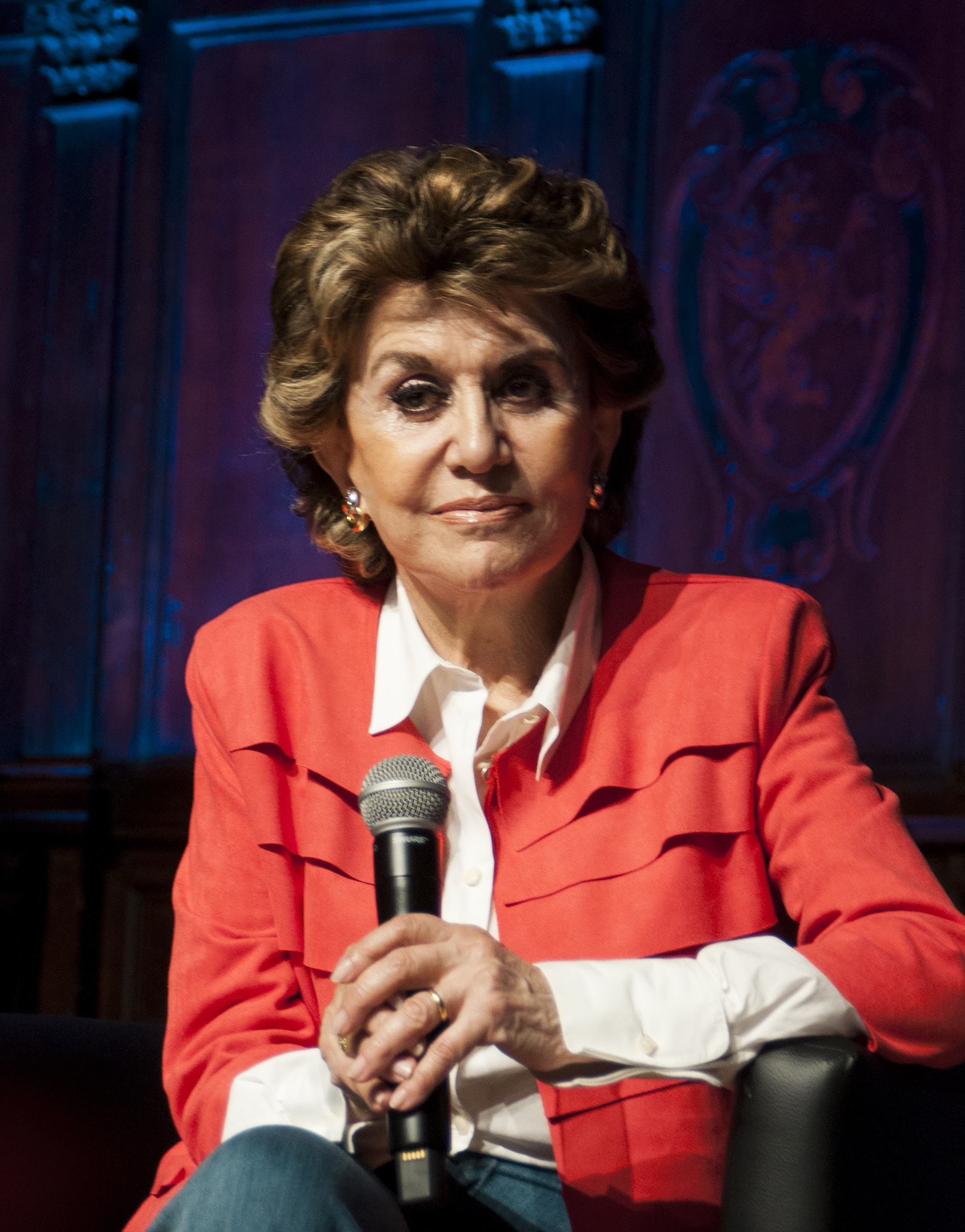 Franca Leosini at the International Journalist Festival, Perugia, 2016